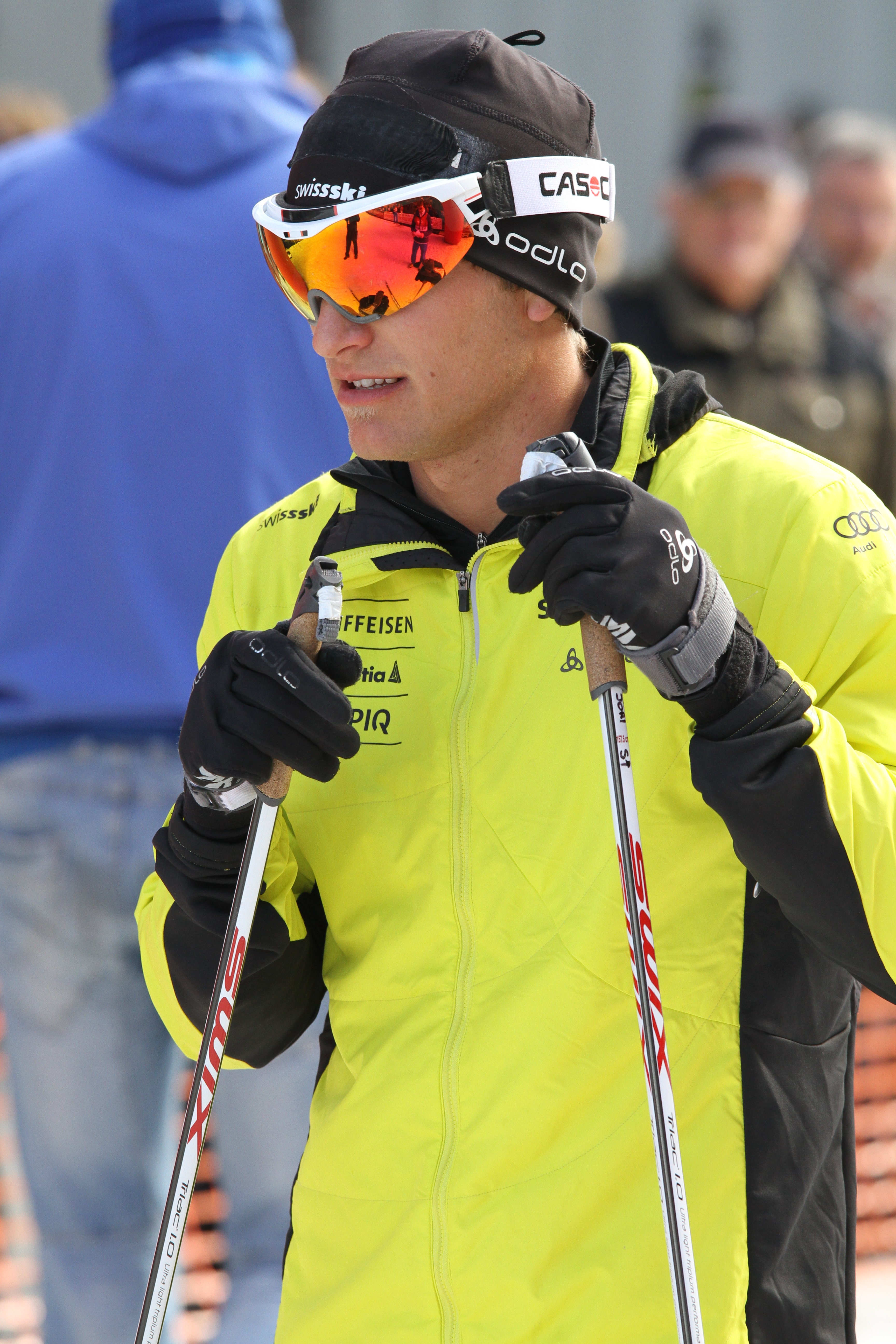 Swiss cross-country skier Gianluca Cologna at the exhibition sprint race "Bysprinten" in Mosjøen, Norway.